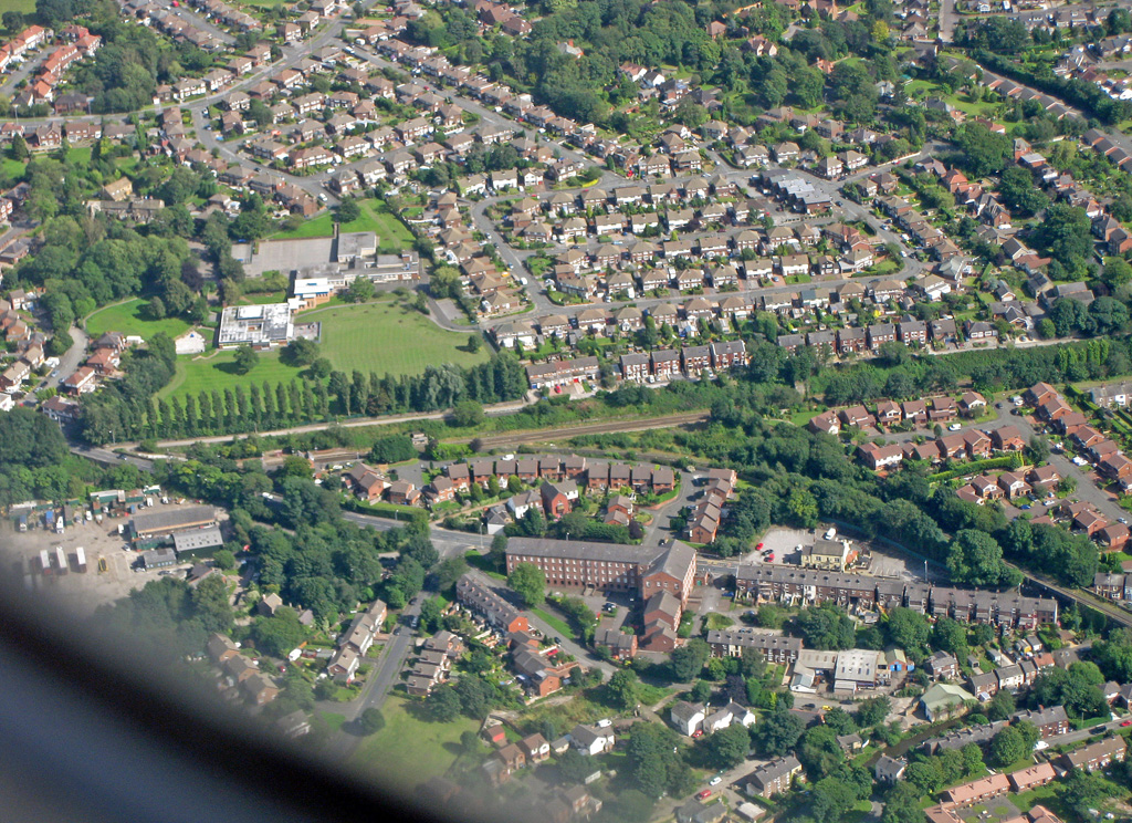 Woodley from the air with the ex J.G.Naylor's abrasives factory mill lower centre and railway station centre left